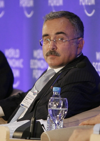 Hilmi Güler at the World Economic Forum on Europe and Central Asia in Istanbul, 30 October - 1 November 2008.